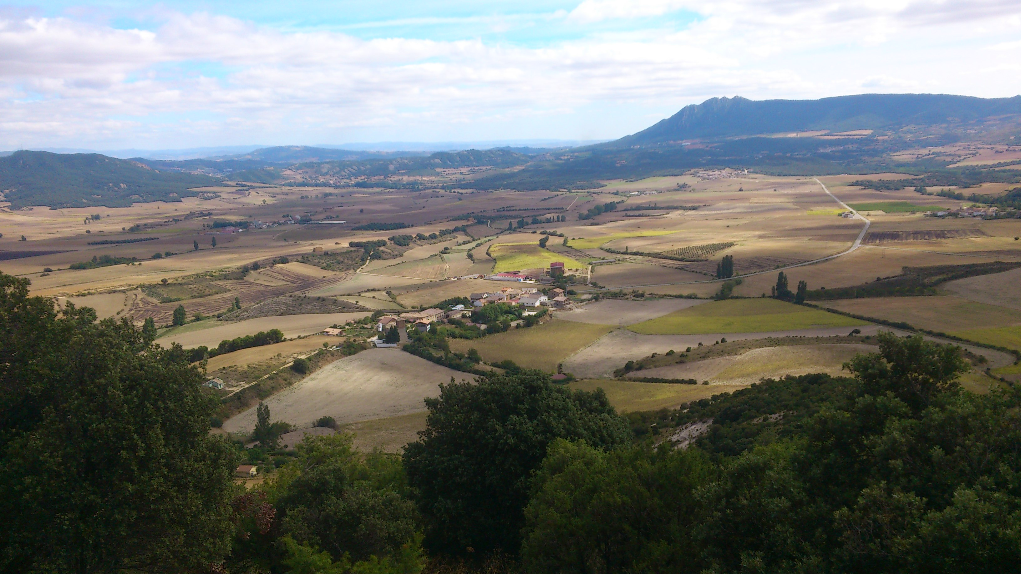 Landscape of Metauten from Lokiz